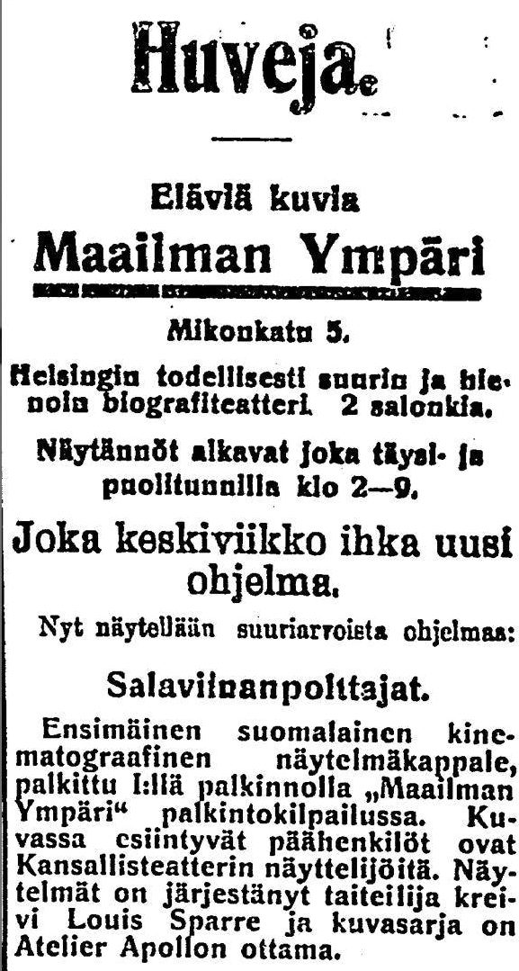 Advertisement for the movie Salaviinanpolttajat from Helsingin Sanomat newspaper, page 1.